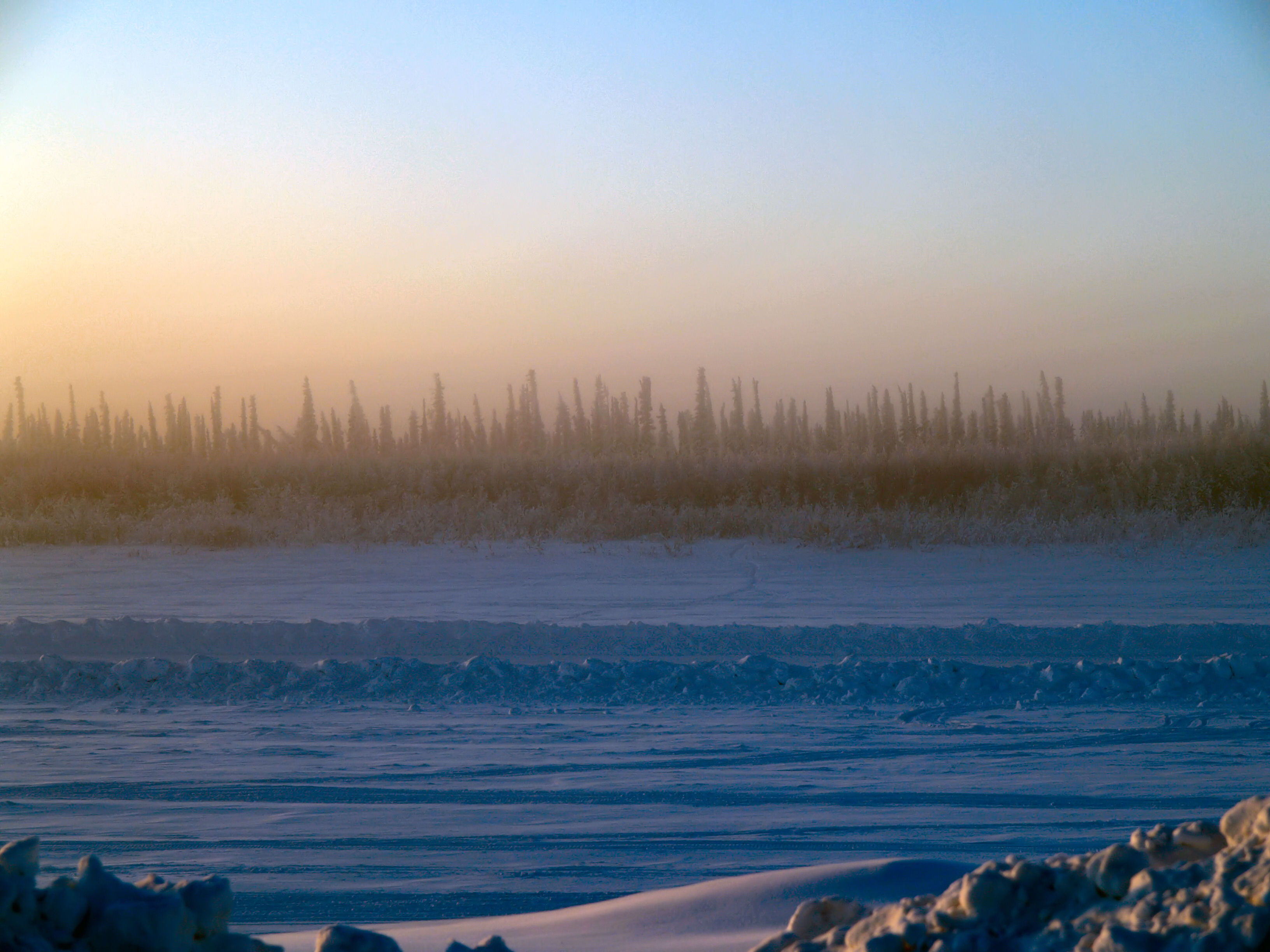 Ice fog on the Mackenzie river and the ice road.